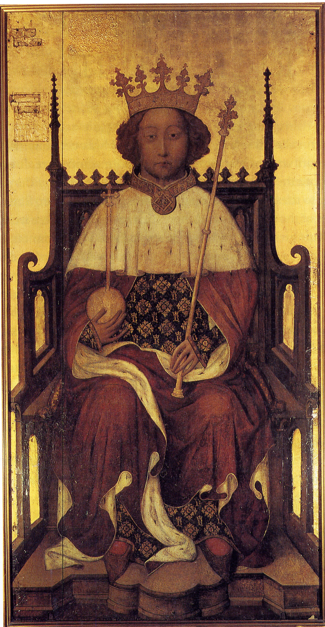 Large version of Richard II Portrait.